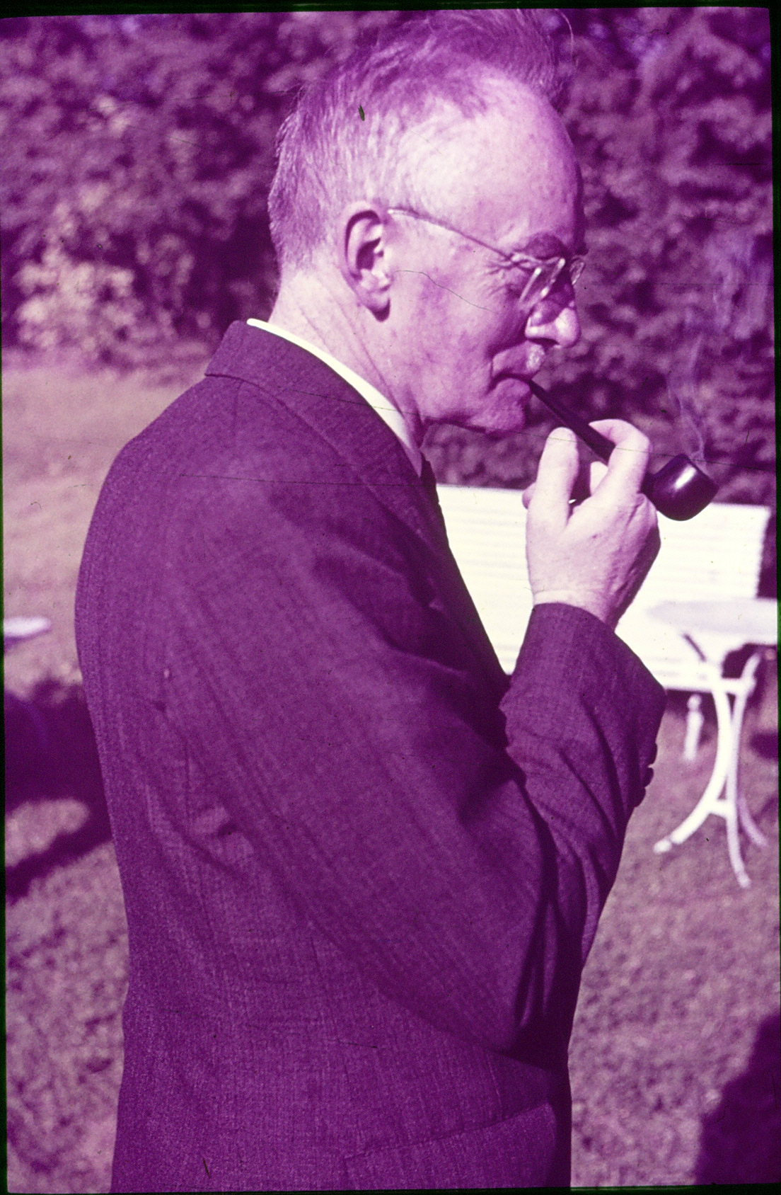 Photo made ca 1955